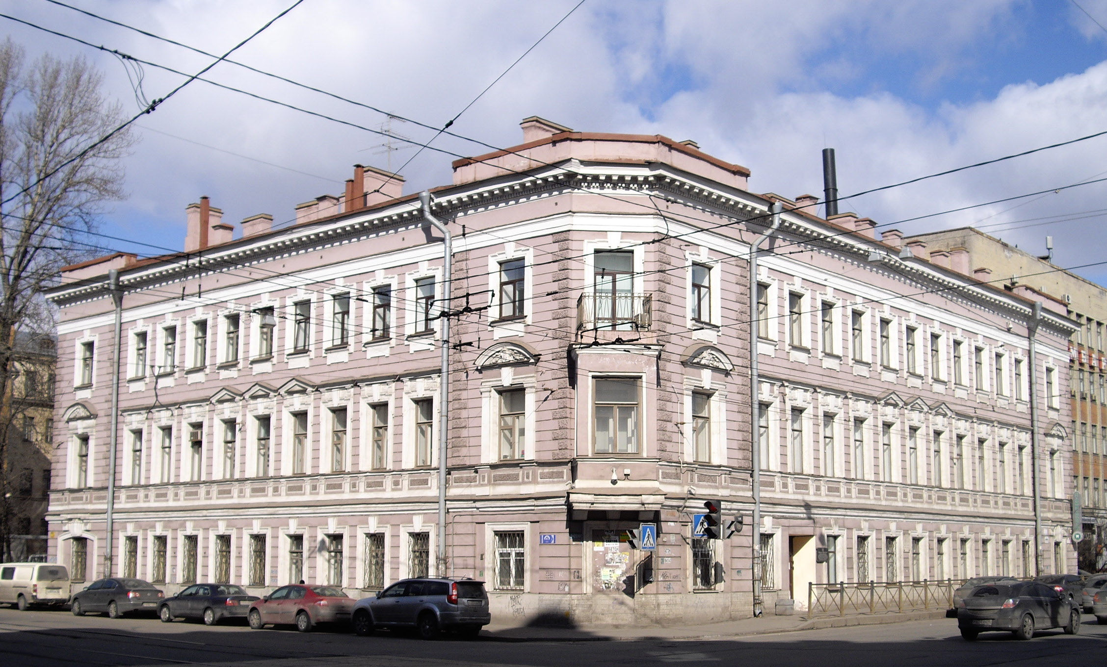 18, Bolshaya Pushkarskaya street, and 4, Vvedenskaya street (Saint Petersburg, Russia). Averin's house (architect Ludwig Shperer, 1879-1880). Ivan Pavlov lived here from 1889 to 1918.